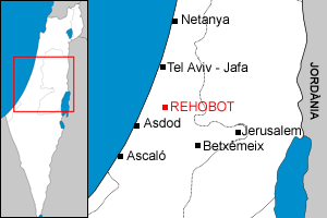 Localization of Rehovot within Israel.